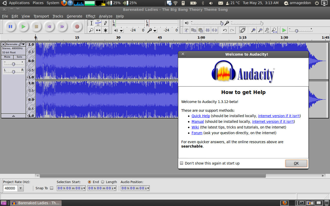 Audacity 1.3.12 Beta running under Ubuntu Lucid Lynx 10.04 LTS